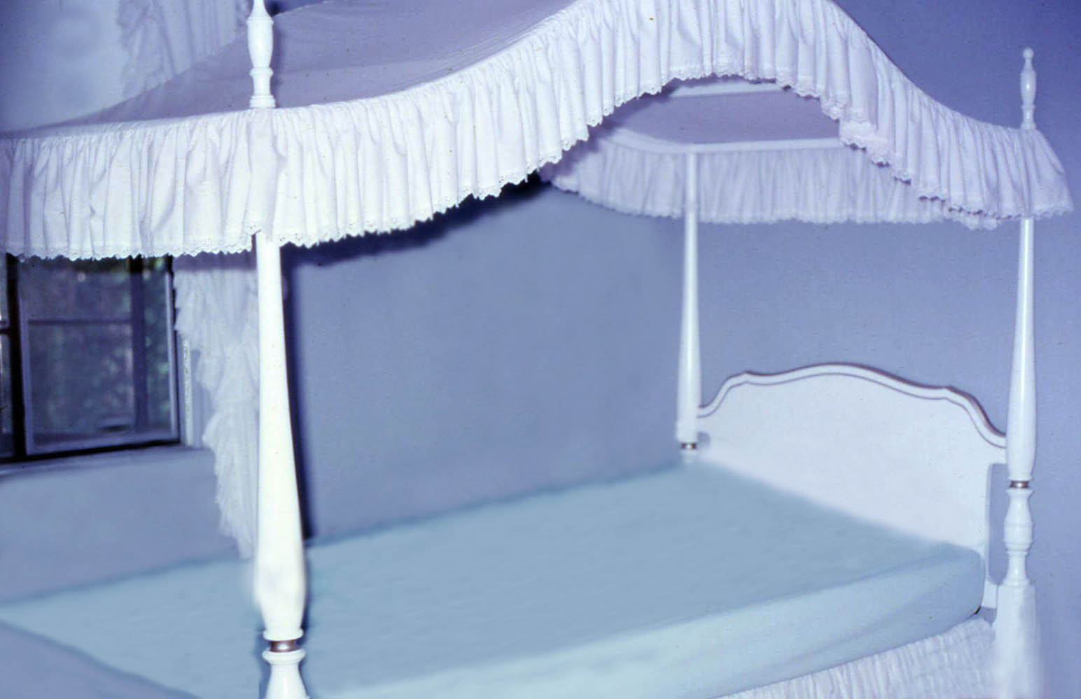 Canopy bed, white